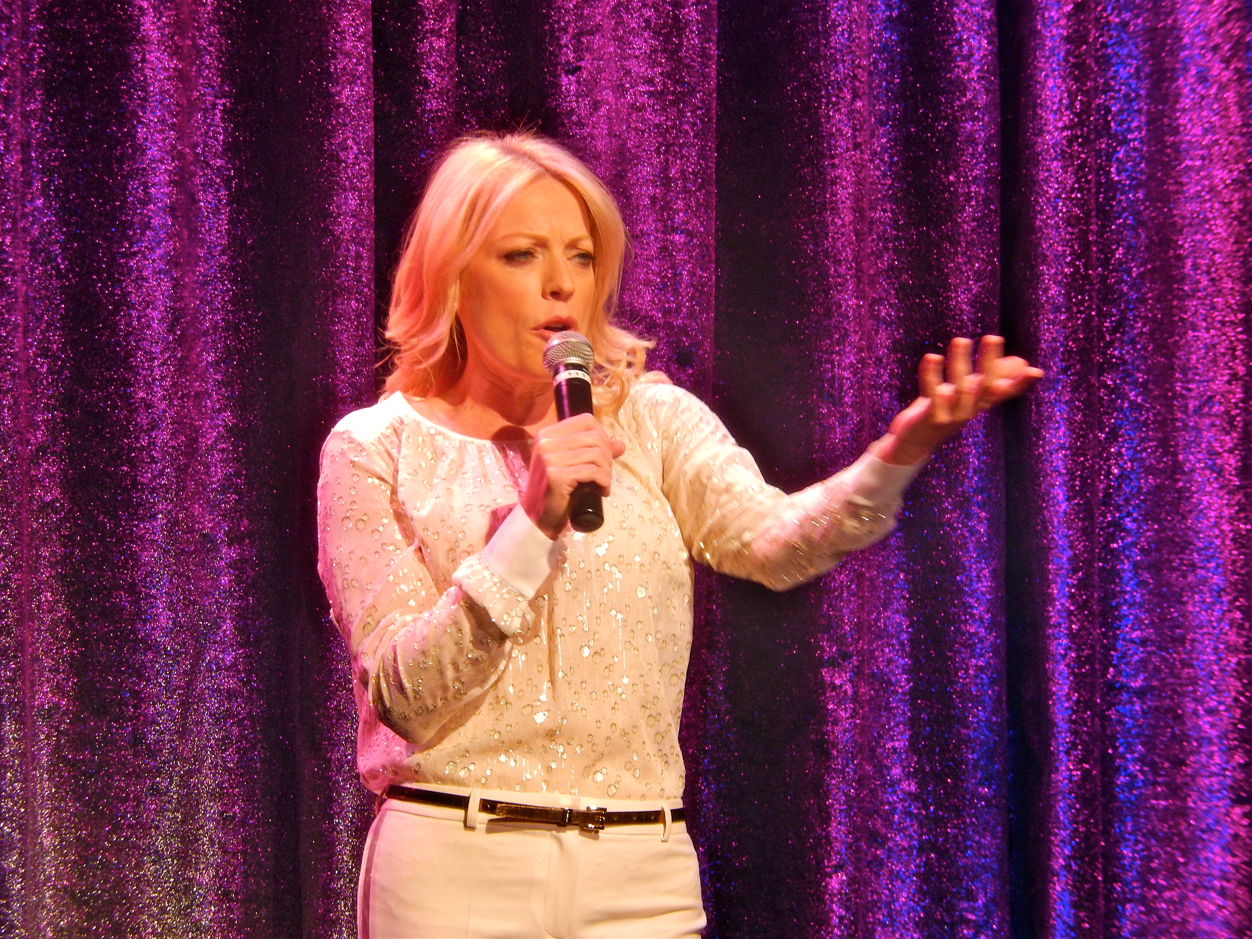 Sherie Rene Scott performing at Dramatists Guild Benefit. 'Great Writers Thank Their Lucky Stars'. October 21, 2013. Edison Ballroom. NYC.